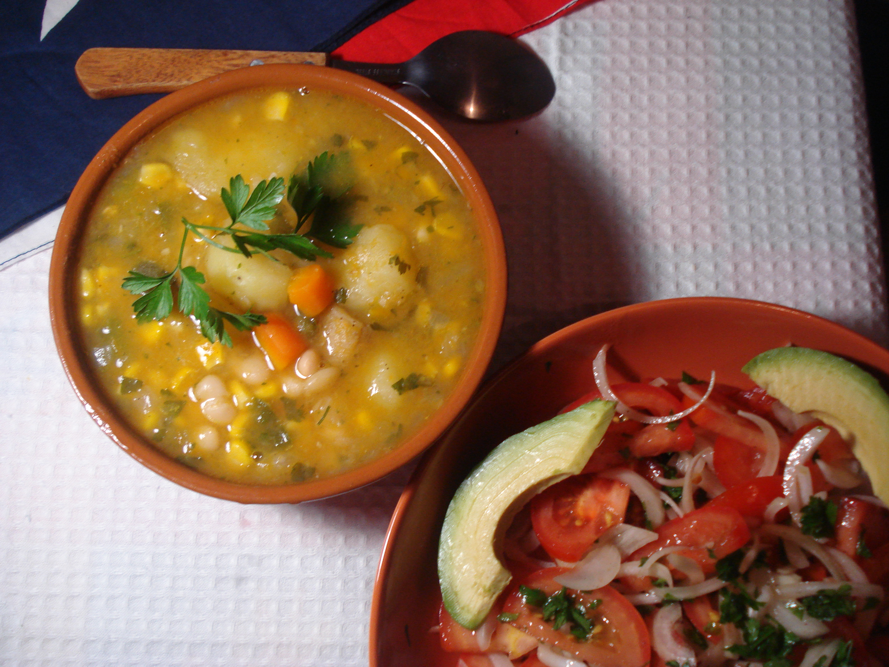 Porotos granados and Chilean Salad are typical summer countryside dishes served in Chile.